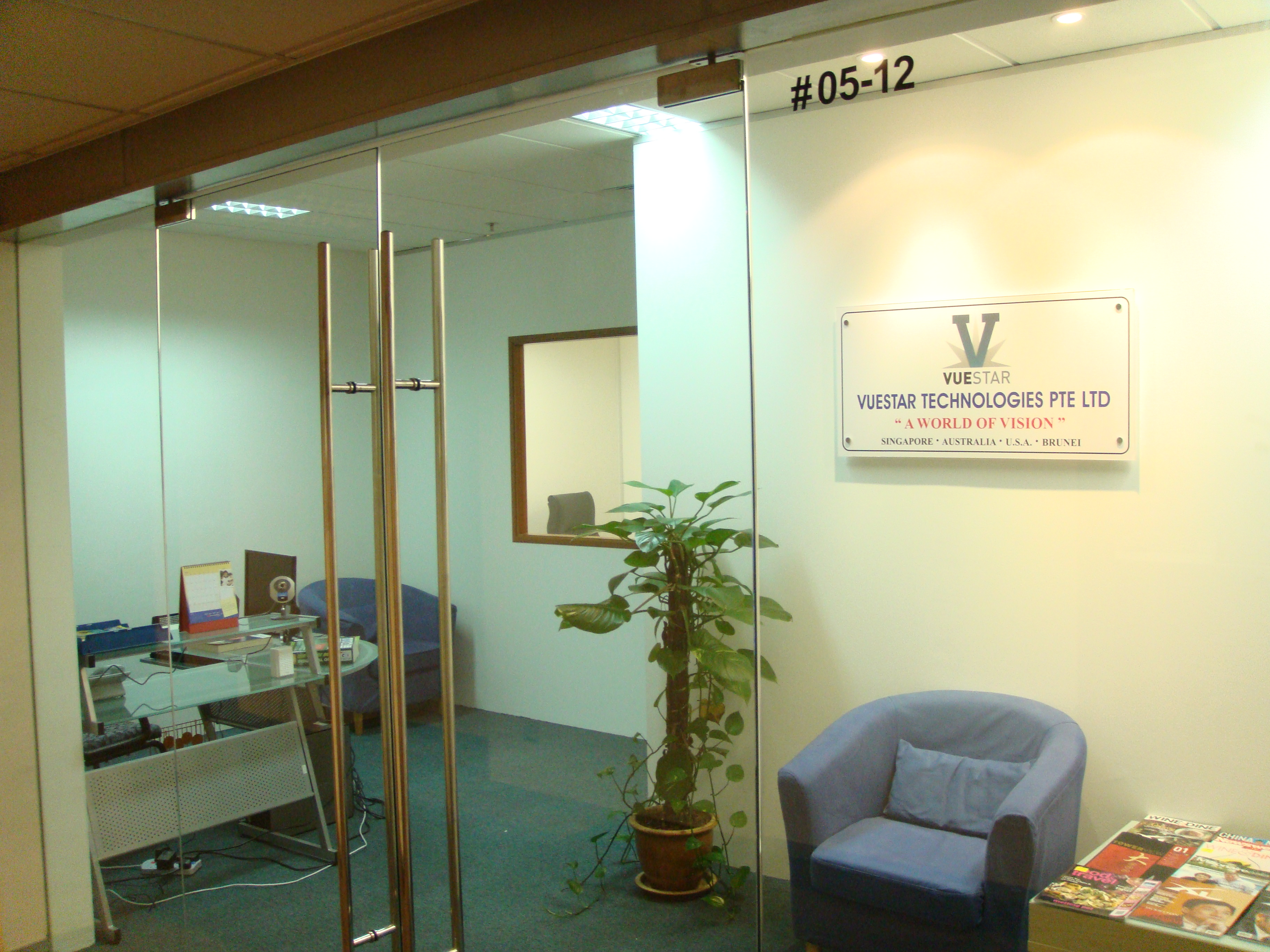 Vuestar Technologies (Singapore) Headquarters, The Adelphi, Singapore. Note : The Attorney-General's Chambers are just next door!